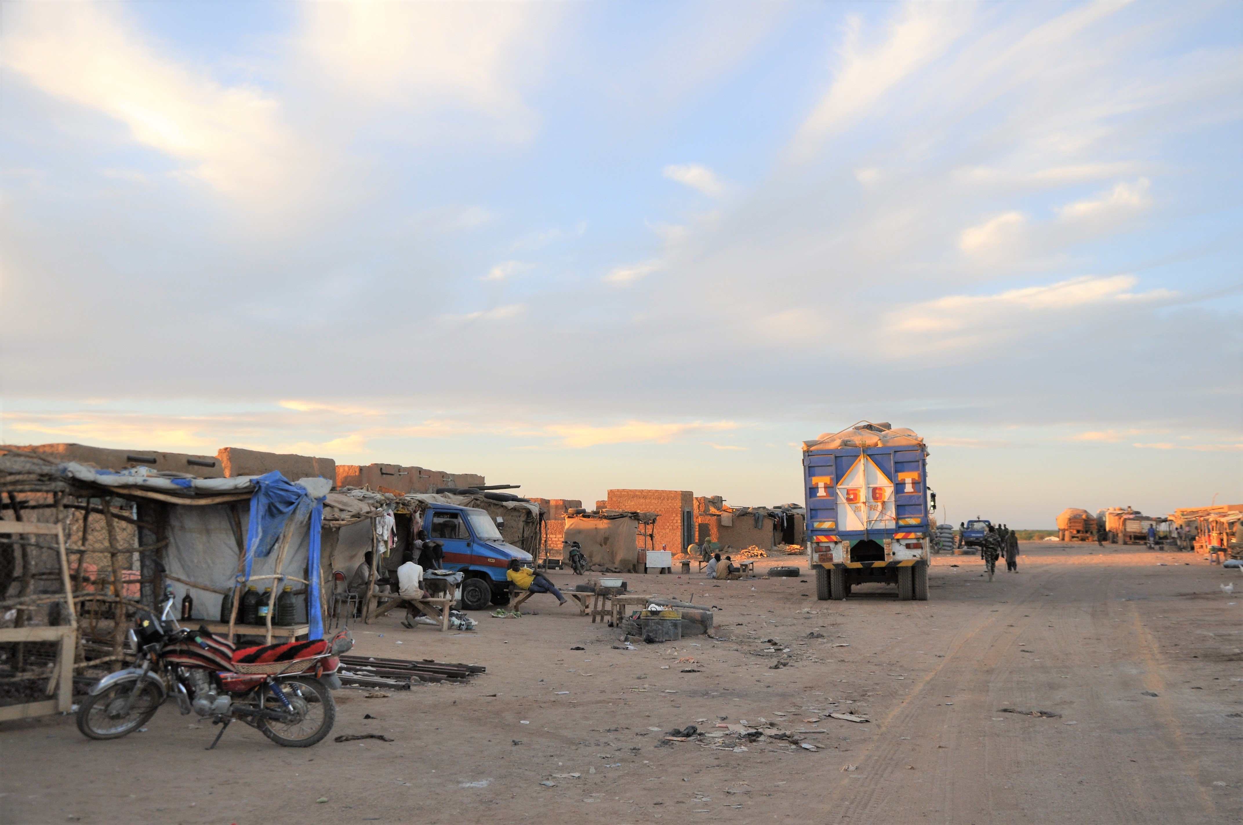 Scene in "RTA", a village on the Tahoua - Arlit road in northern Niger (Agadez Region, Arlit Department, Commune of Dannet). It serves mostly as a truck stop where refreshments are sold to travellers.